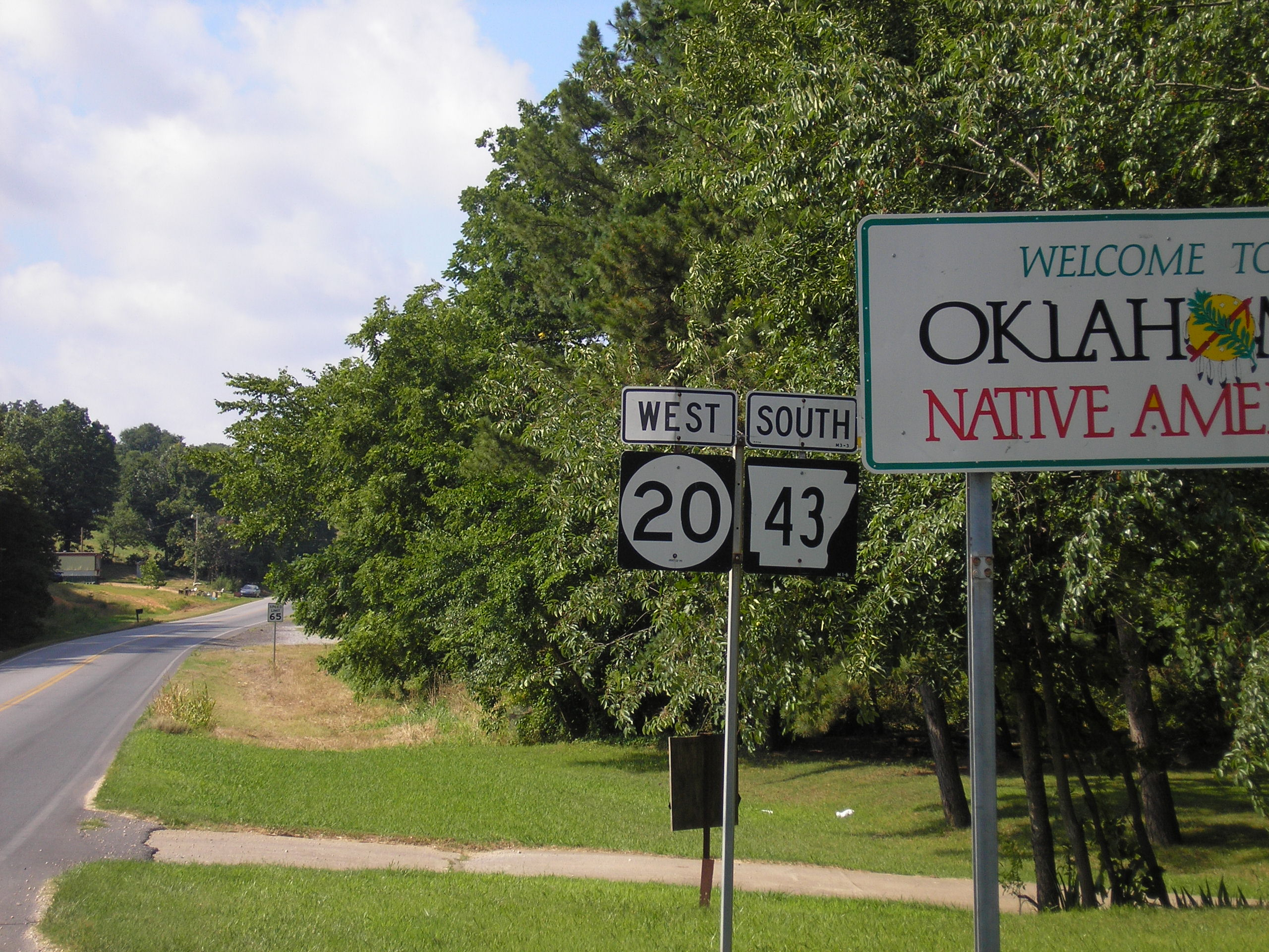 The concurrent eastern and northern termini of OK-20 and AR-43 at MO-43 near Southwest City, Missouri. Route 43 continuing as Arkansas 43 and Oklahoma 20. Northern end of Arkansas 43/Eastern end of Oklahoma 20. Eastern terminus of State Highway 20 at Missouri Route 43.